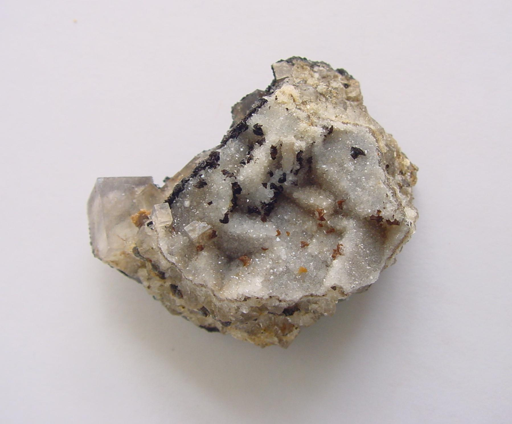 Quartz epimorphs after fluorite from the Cross Vein, Rampgill Mine, Nenthead, Cumbria, UK